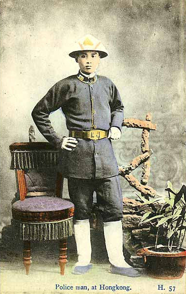 Studio portrait of a policeman, Hong Kong, between 1902 and mid-1920s Photographer: Unknown Subjects (LCTGM): Police--Clothing & dress--China--Hong Kong Portrait photographs Digital Collection: International Collections Item Number: INC0006 Persistent URL: Visit Special Collections reproductions and rights page for information on ordering a copy. University of Washington Libraries. Digital Collections